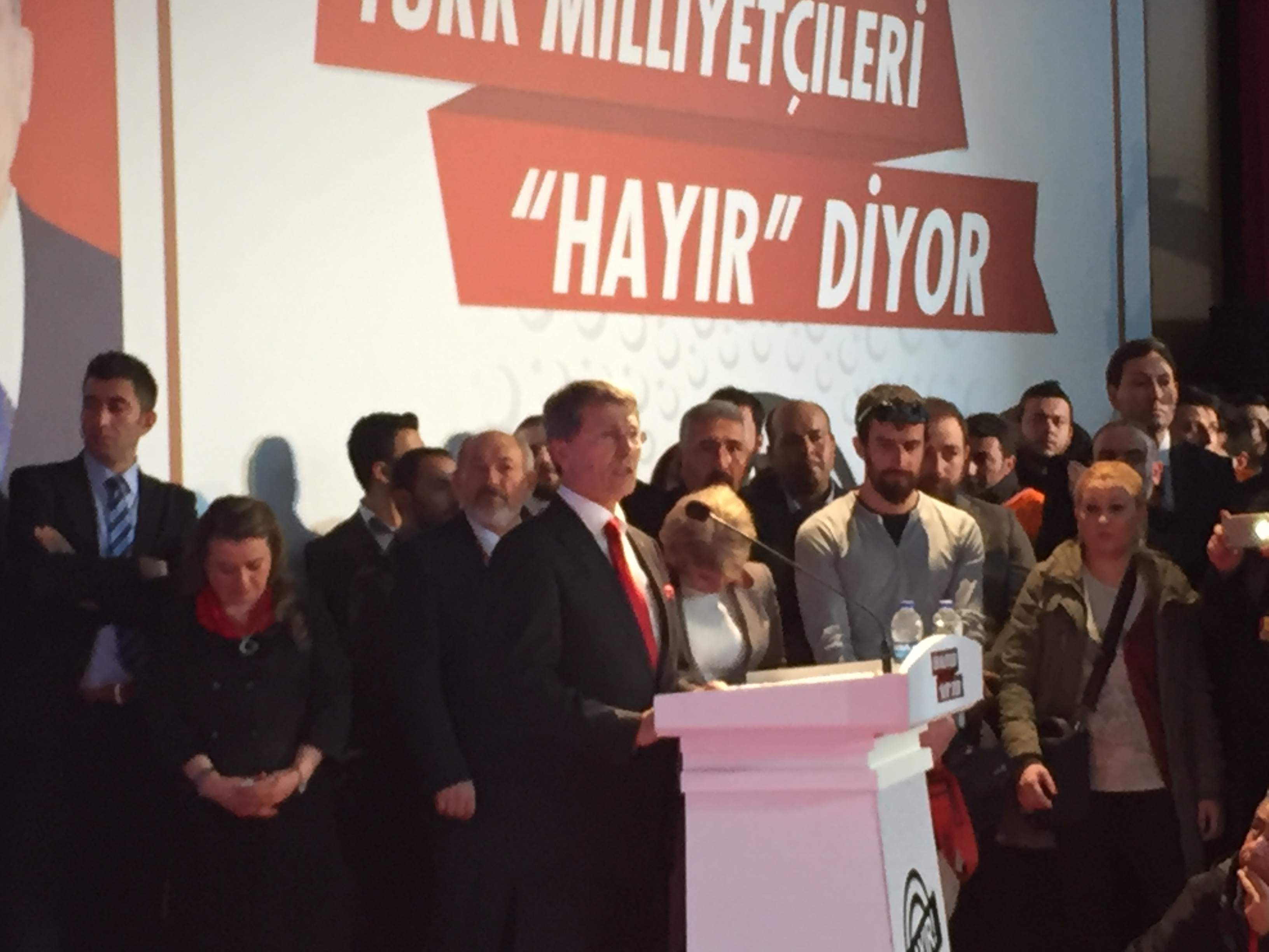 Members of the MHP inner-party opposition at a 'No' vote conference, for the 2017 constitutional referendum